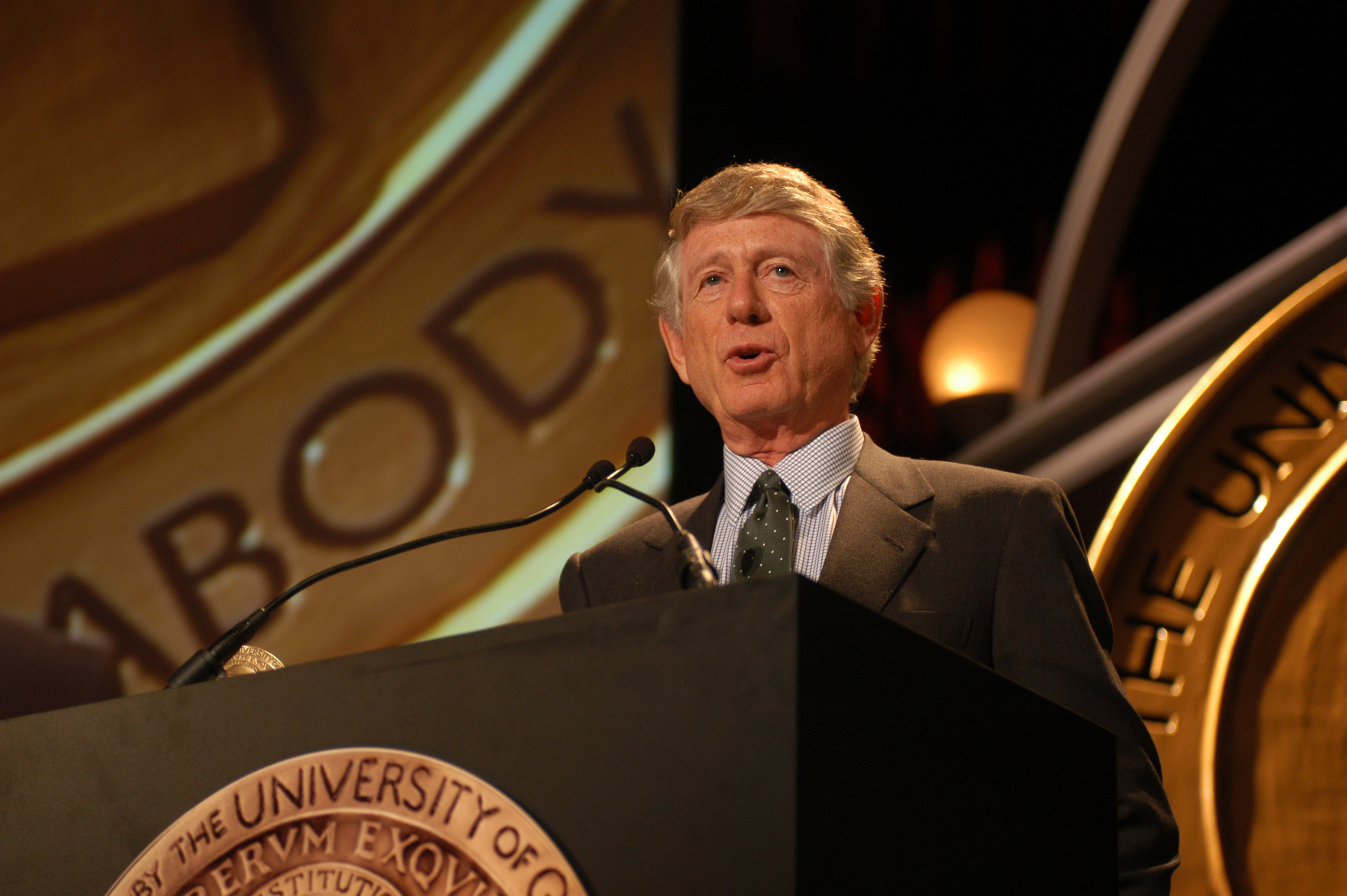 Ted Koppel at the 62nd Annual Peabody Awards Luncheon Waldorf=Astoria Hotel May 19, 2003